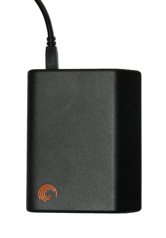 Seagate FreeAgent® Go external hard disk drive, with 120 GB storage capacity